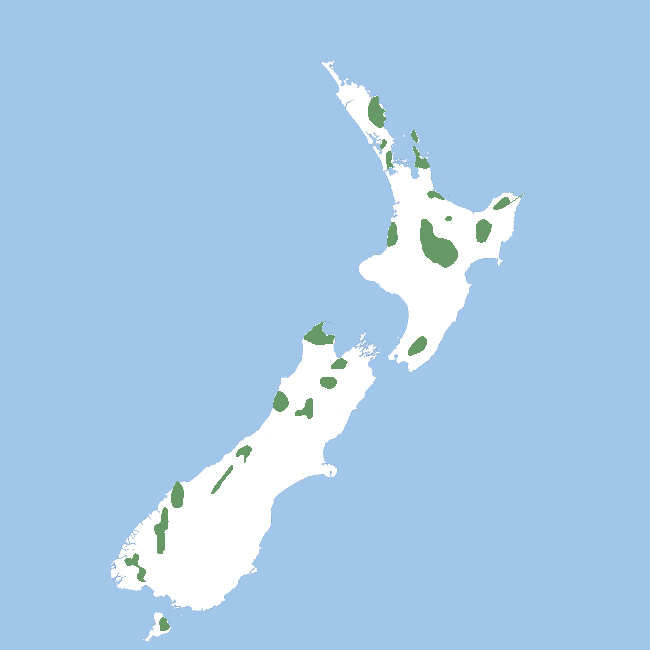 Current distribution of the New Zealand Kaka - entirely in New Zealand.